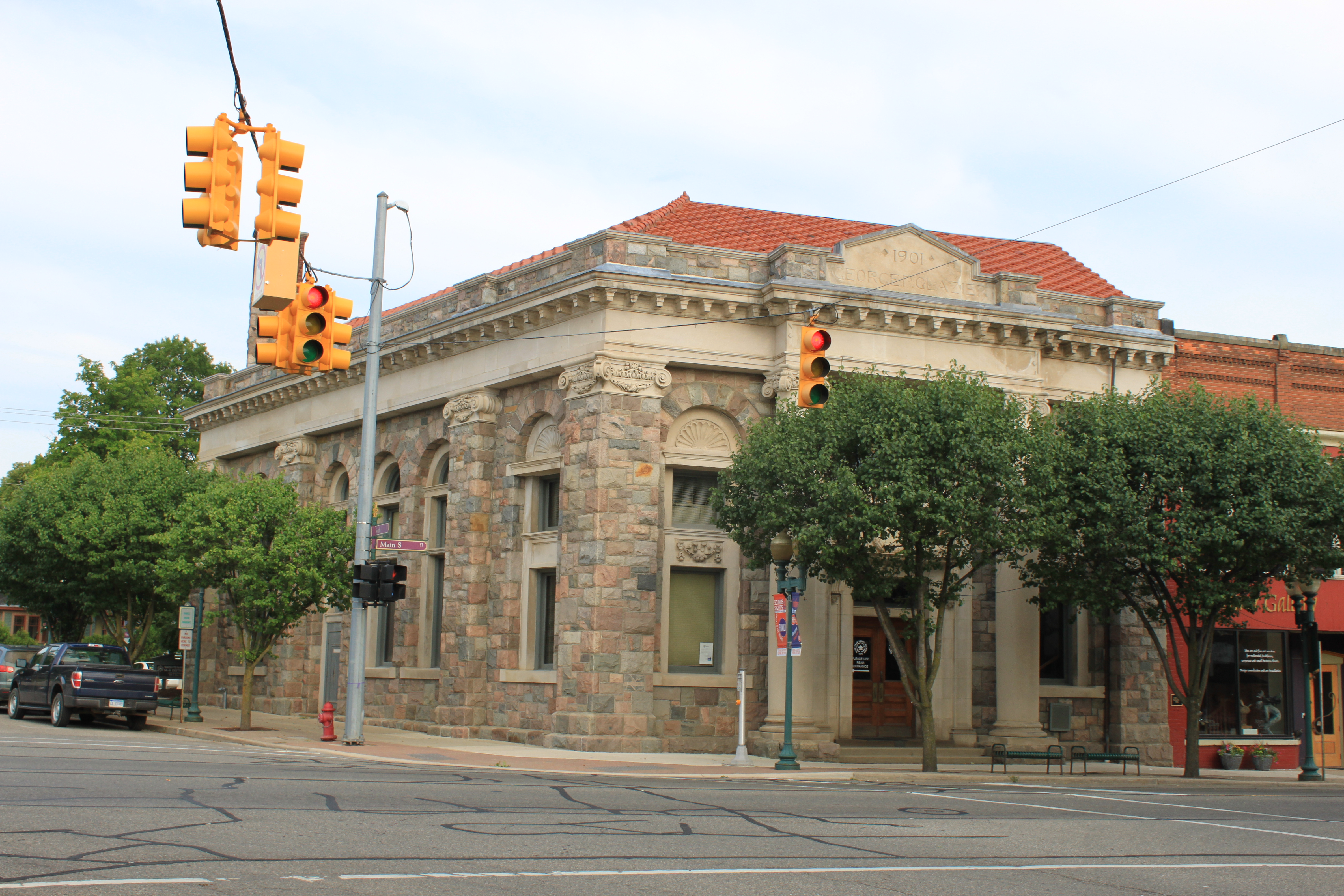 George P. Glazier Building, 122 South Main Street, Chelsea, Michigan. The building is on the list of Michigan State Historic Sites.